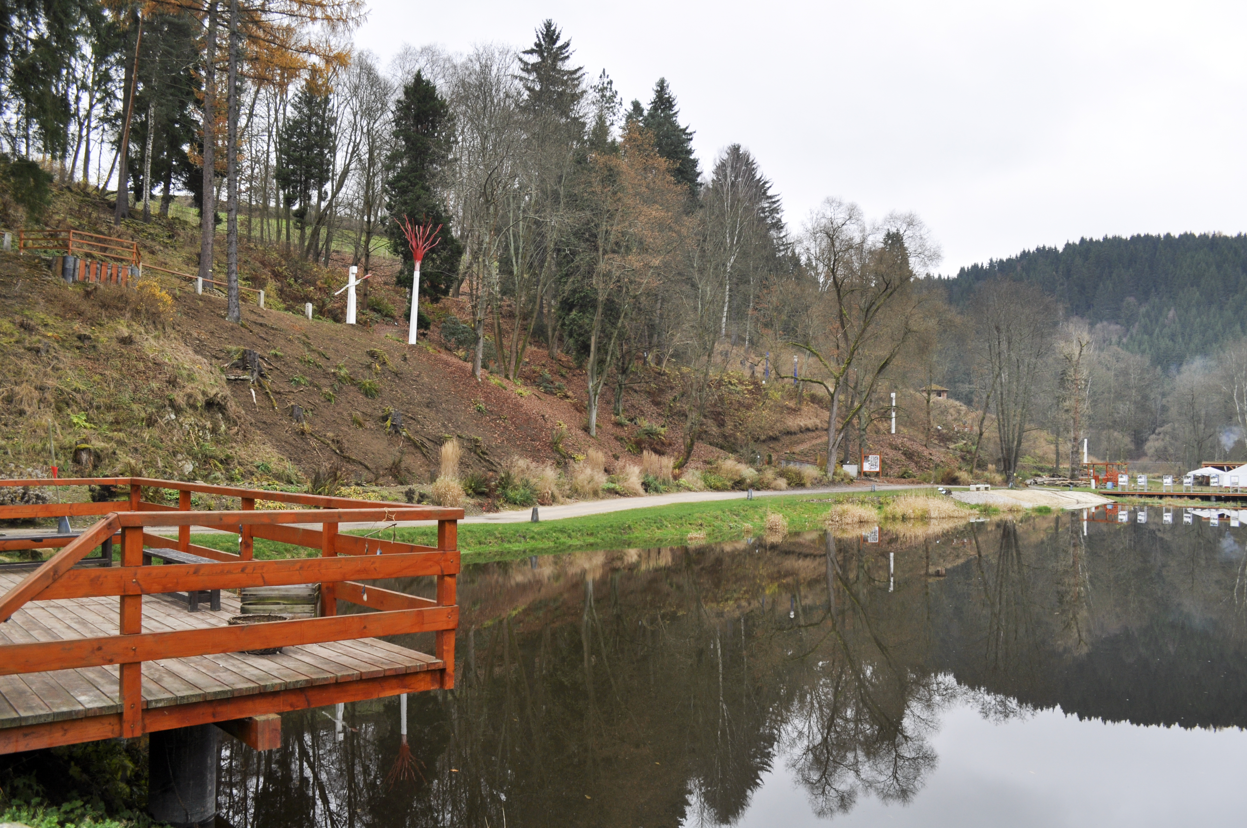 Botanical Garden in Bečov nad Teplou - pond